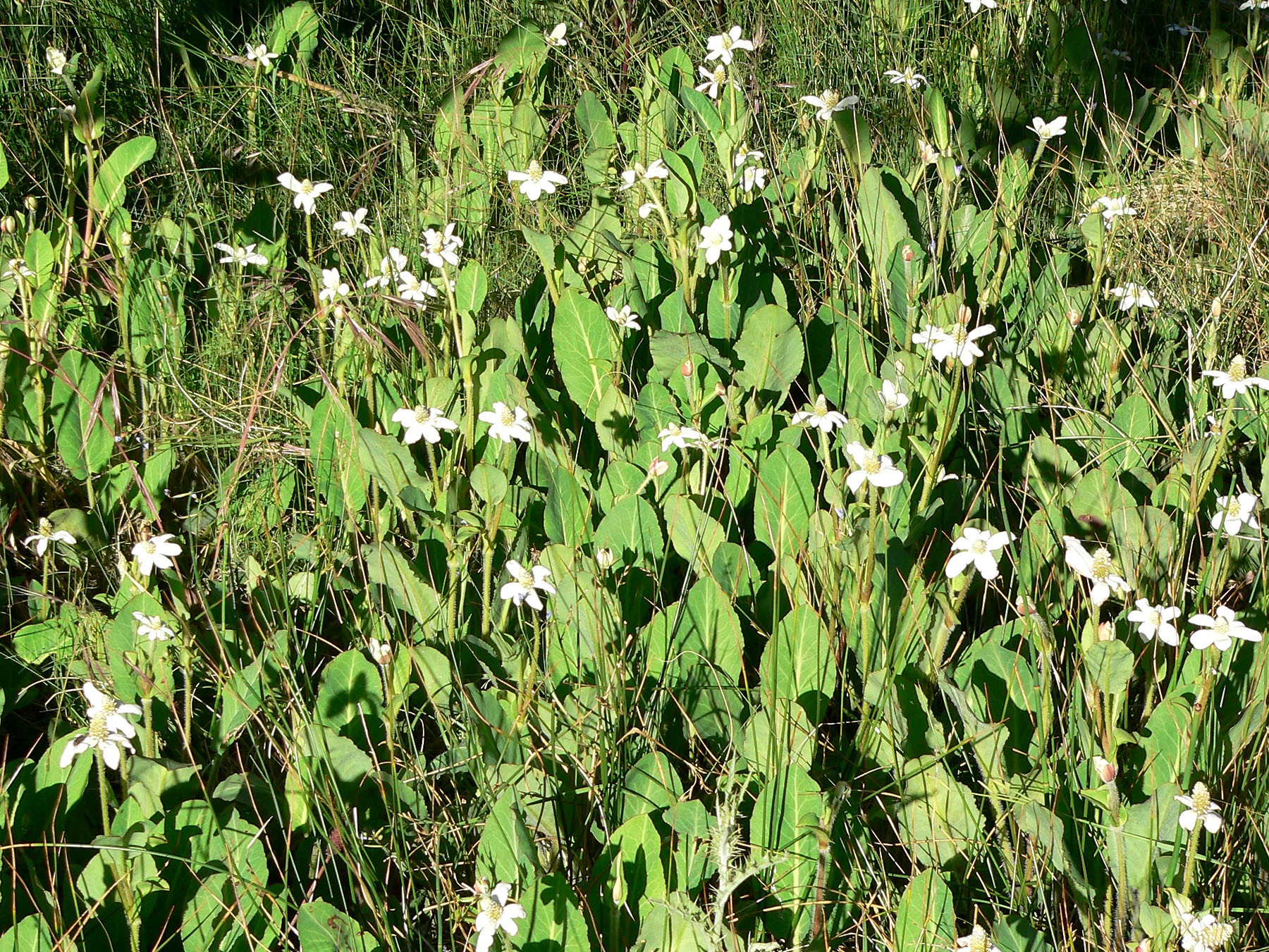 Anemopsis californica in Calico Basin, west of Las Vegas, Nevada